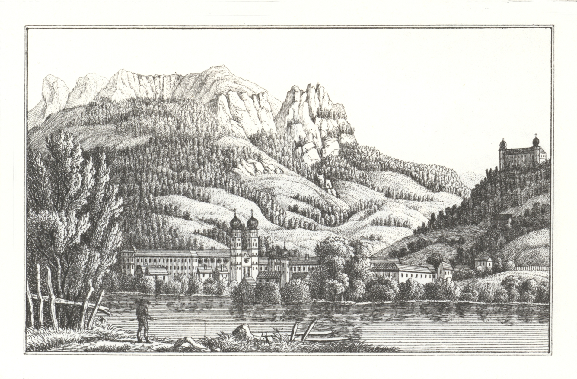 J. F. Kaiser - lithographirte Ansichten der Steyermärkischen Städte, Märkte und Schlösser Graz, 1825 Joseph Franz Kaiser (1786–1859) Alternative names J. F. KaiserDescriptionAustrian printer and editorDate of birth/death 11 March 1786 19 September 1859Location of birth/death Graz (Styria) GrazAuthority control : Q1499963 VIAF: 30629353 ISNI: 0000 0000 3083 0153 LCCN: n87141671 GND: 129880159 NLP: A24960305 WorldCat creator QS:P170,Q1499963 Scanprojekt Community Projektbudget 2012 This scan or this PDF-file was created within the GLAM-project Bookscanning, supported by Wikimedia Germany and Wikimedia Austria as a part of the community-project to capture books, documents and pictures which are not eligible to copyright or for which the copyright has expired. This document describes or depicts an object which is located in Austria today. Send requests for uncompressed scans to Hubertl. This work is in the public domain in its country of origin and other countries and areas where the copyright term is the author's life plus 100 years or less. You must also include a United States public domain tag to indicate why this work is in the public domain in the United States. This file has been identified as being free of known restrictions under copyright law, including all related and neighboring rights.